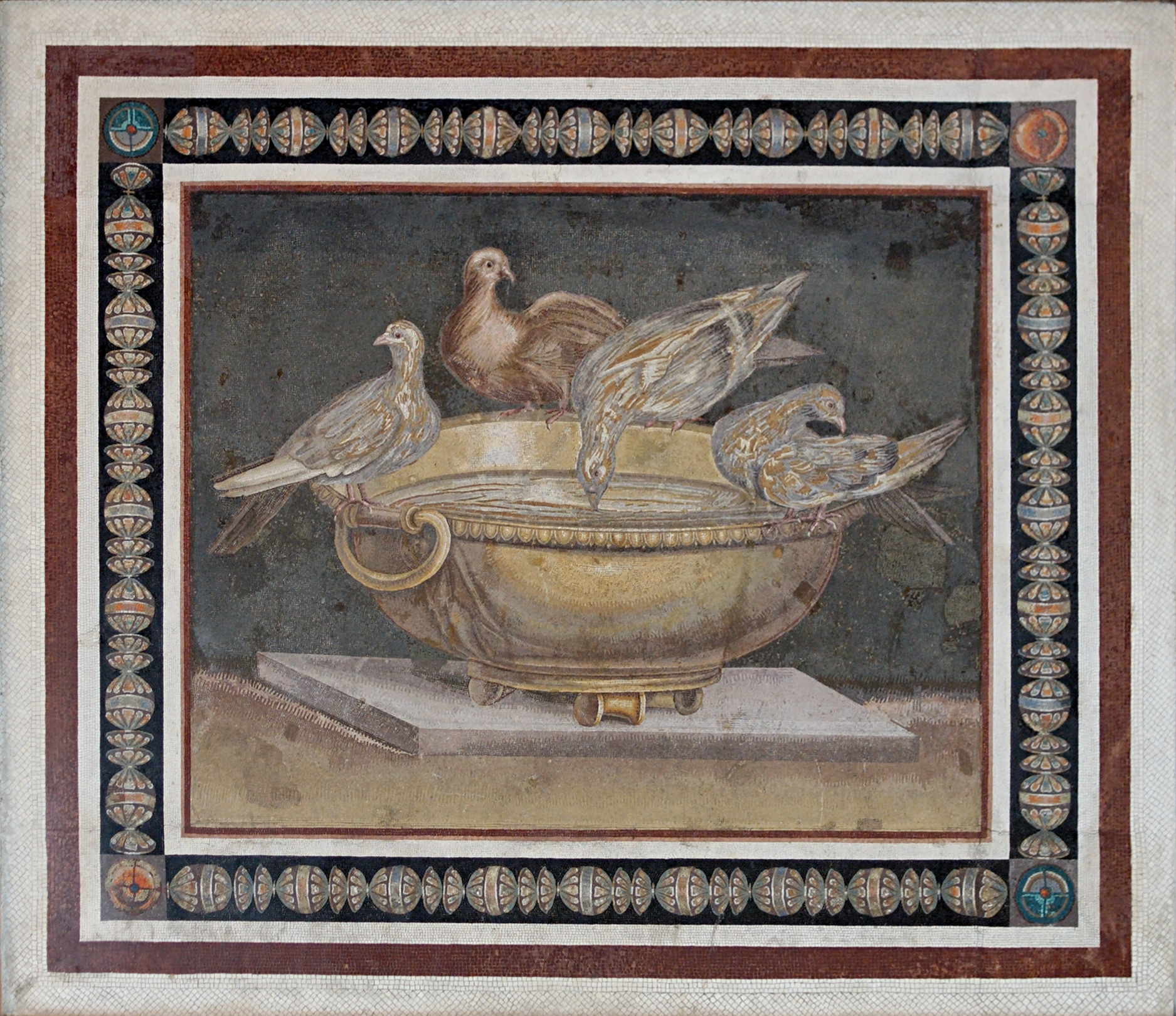 Mosaic emblema with doves. Roman copy after an Pergamenian original from the 2nd century BCE. From the Villa Adriana, 1737.